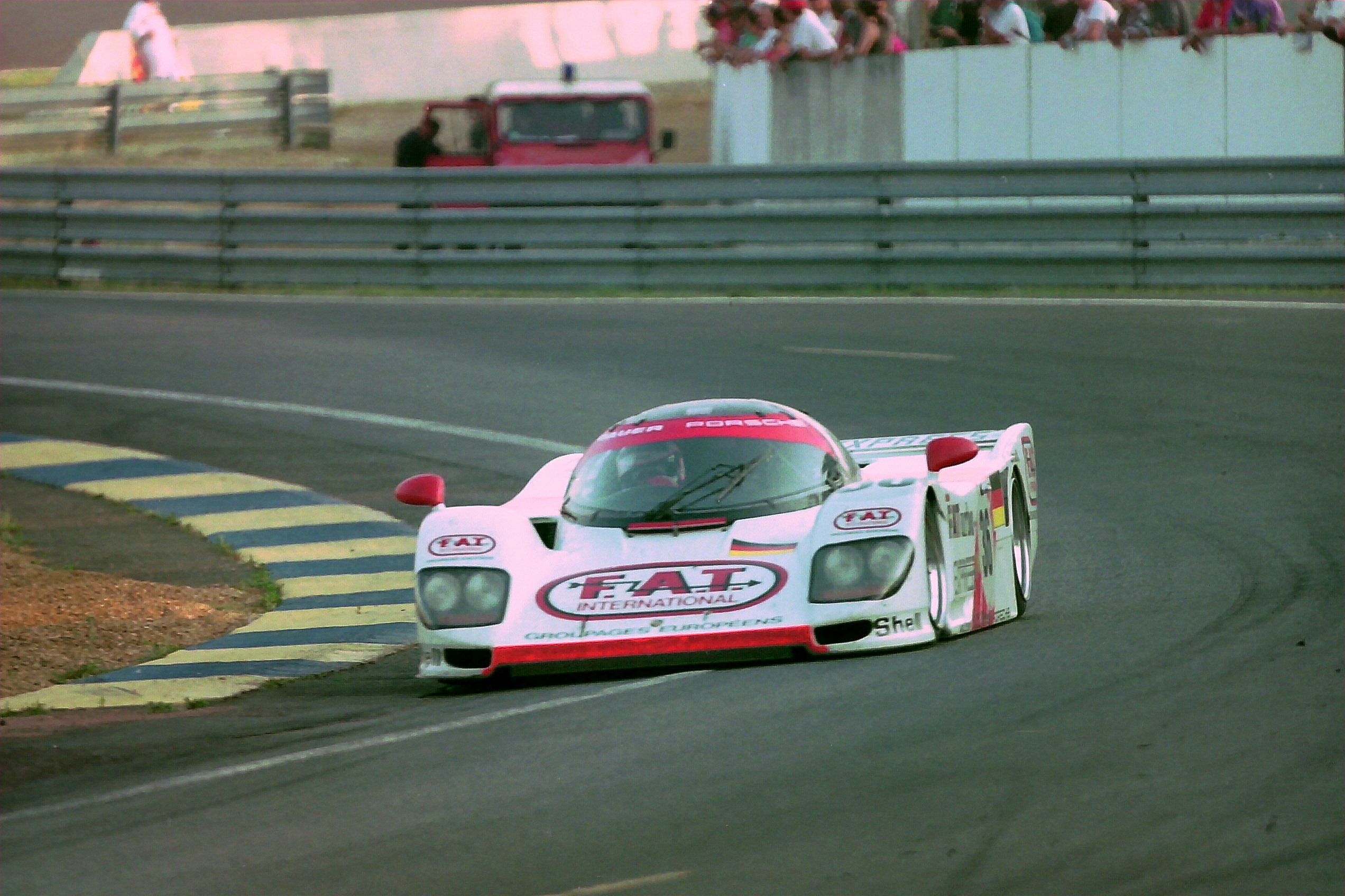 Dauer 962 LM - Mauro Baldi, Yannick Dalmas & Hurley Haywood in the Esses at the 1994 Le Mans